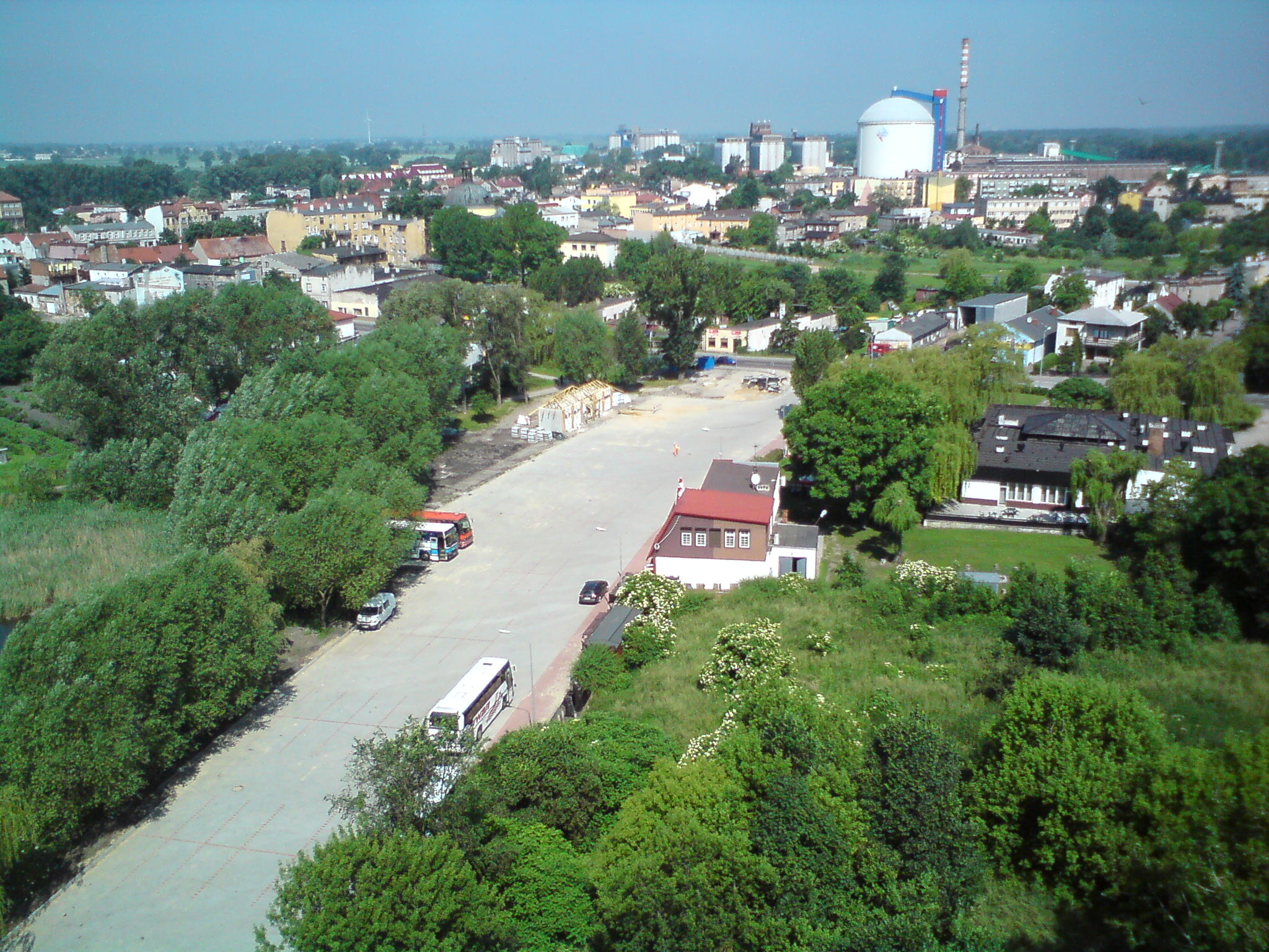 Kruszwica - view from Mause Tower